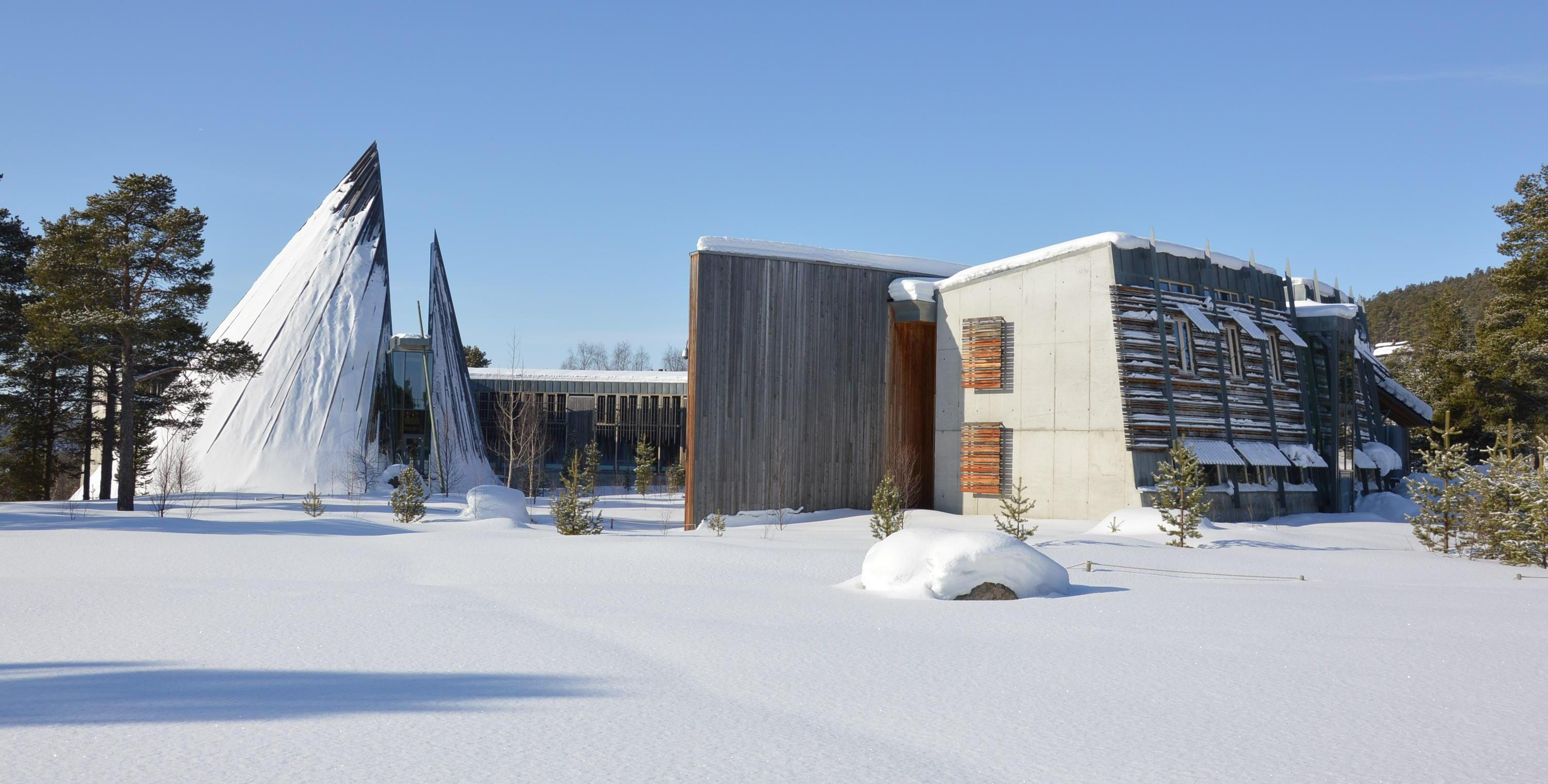 Sámediggi, the Sami Parliament of Norway, in Kárášjohka.